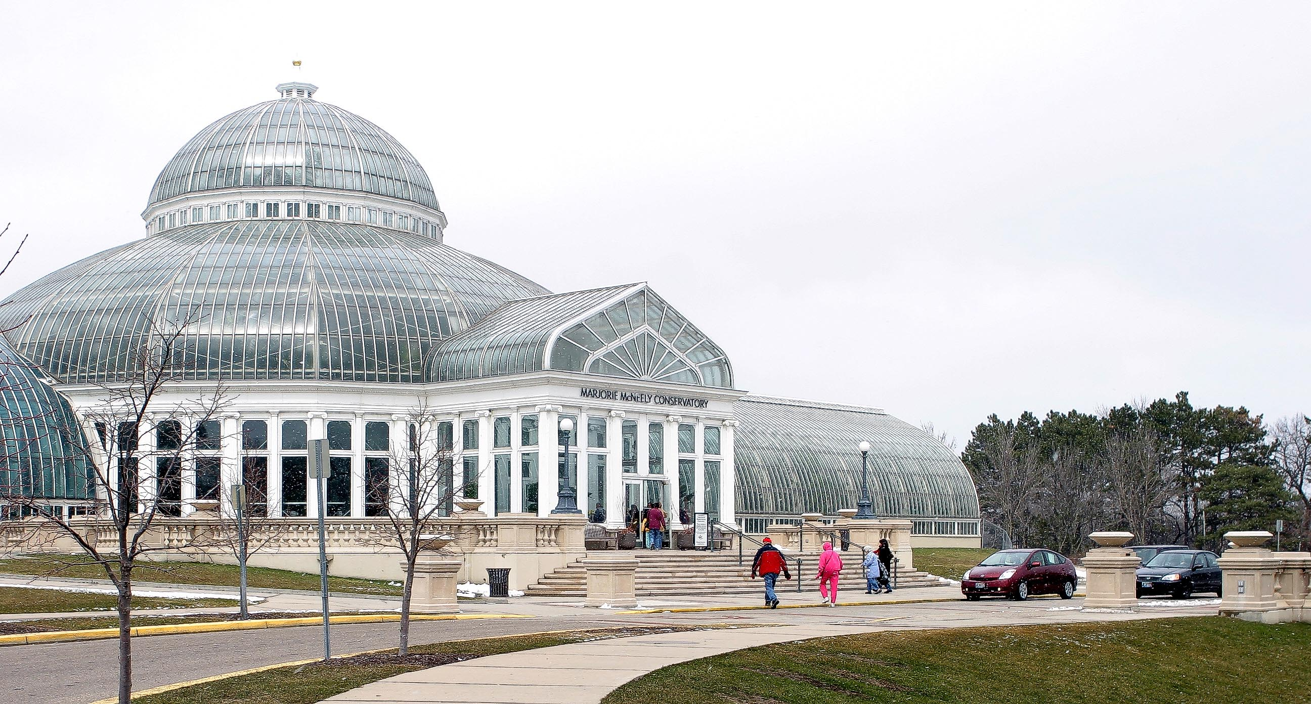 The Como Park Conservatory in St. Paul, Minnesota